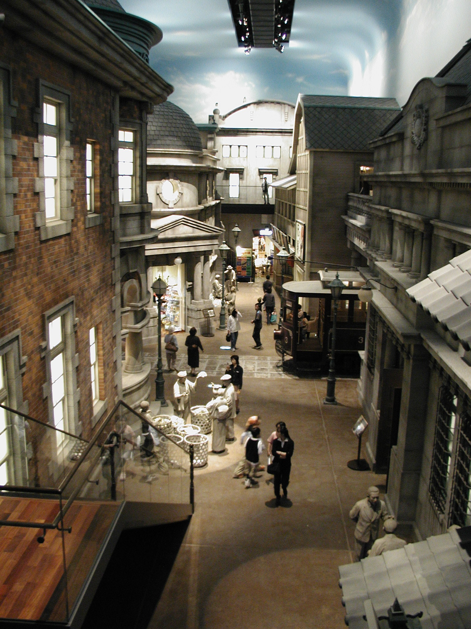 "kaikyo-retro-douri" moji retro museum image